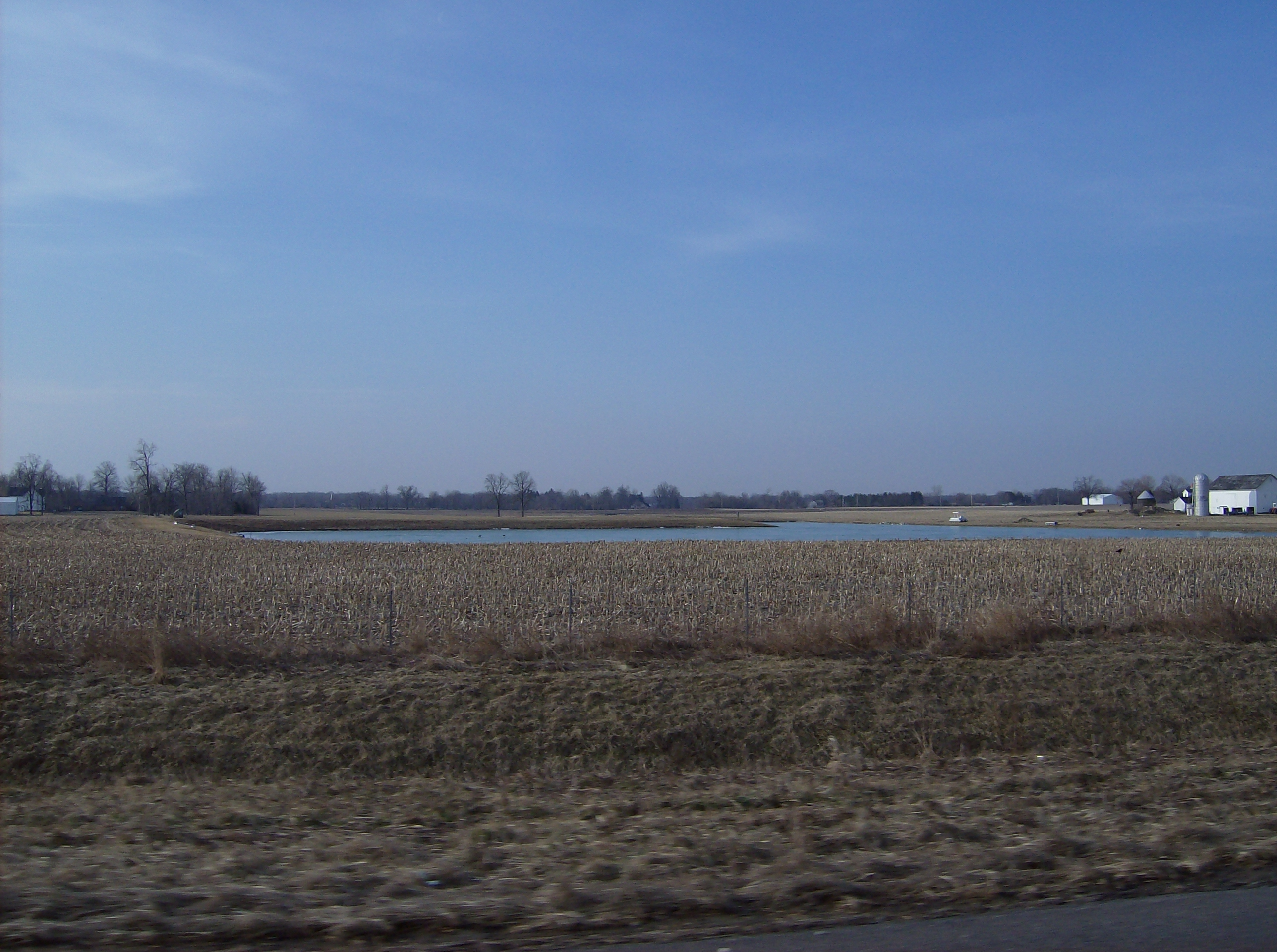 View of farmland in Jefferson Township, Crawford County, Ohio, United States. Picture taken from U.S. Route 30.